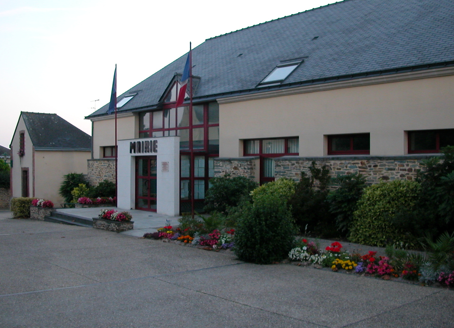 Town hall of Soudan, Loire-Atlantique